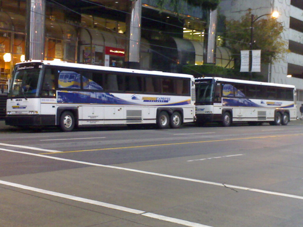 Two TransLink coaches at Waterfront Station that operate off-peak hours parallel to the West Coast Express